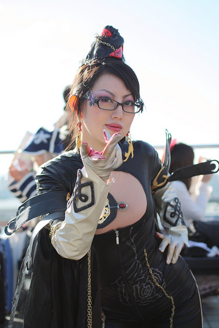 Cosplay